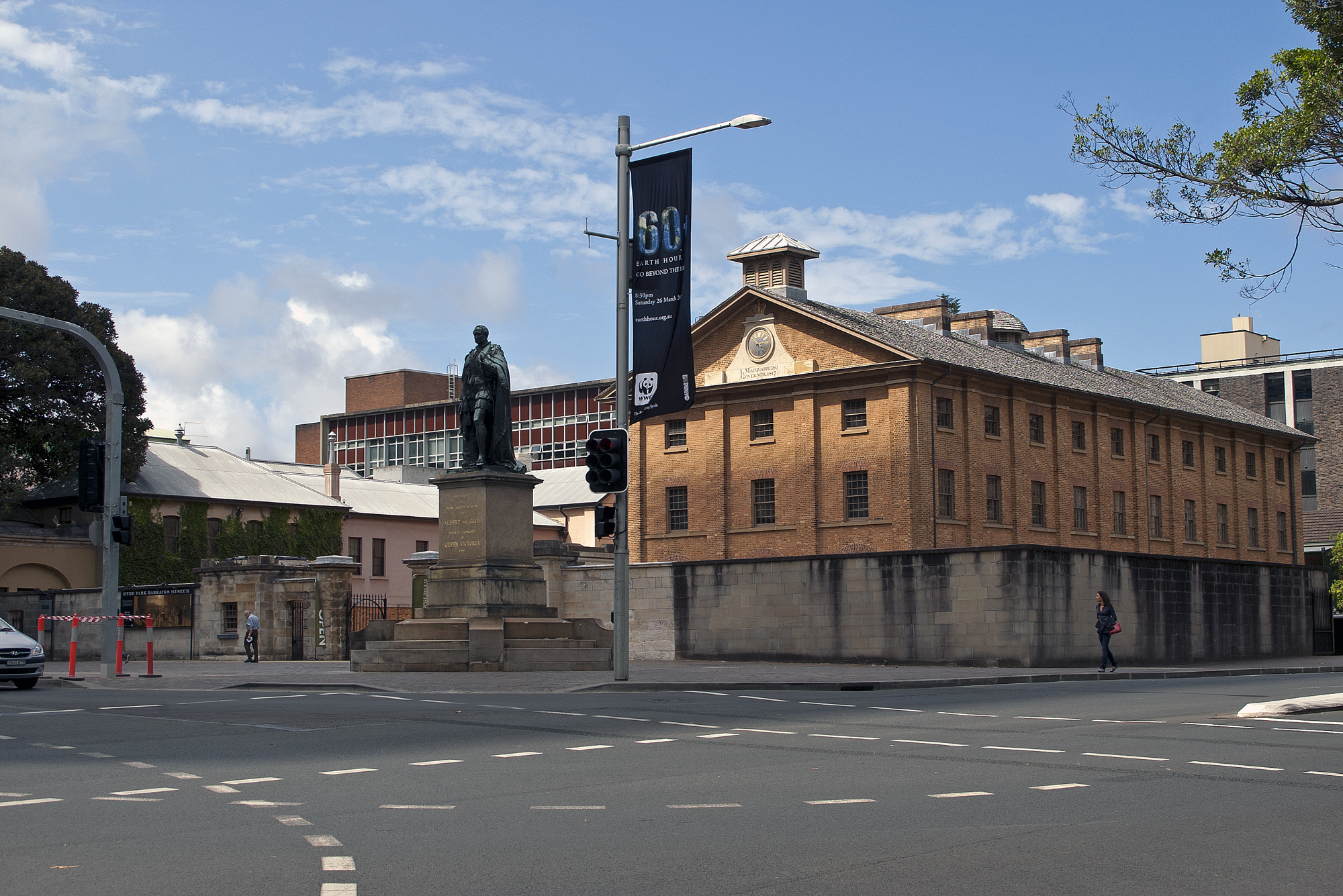 Hyde Park Barracks and Statue of Prince Albert on the corner of Macquarie Street and Prince Albert Road, Sydney.